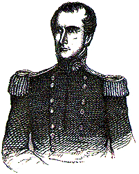 B/W etching of John Ellis Wool.